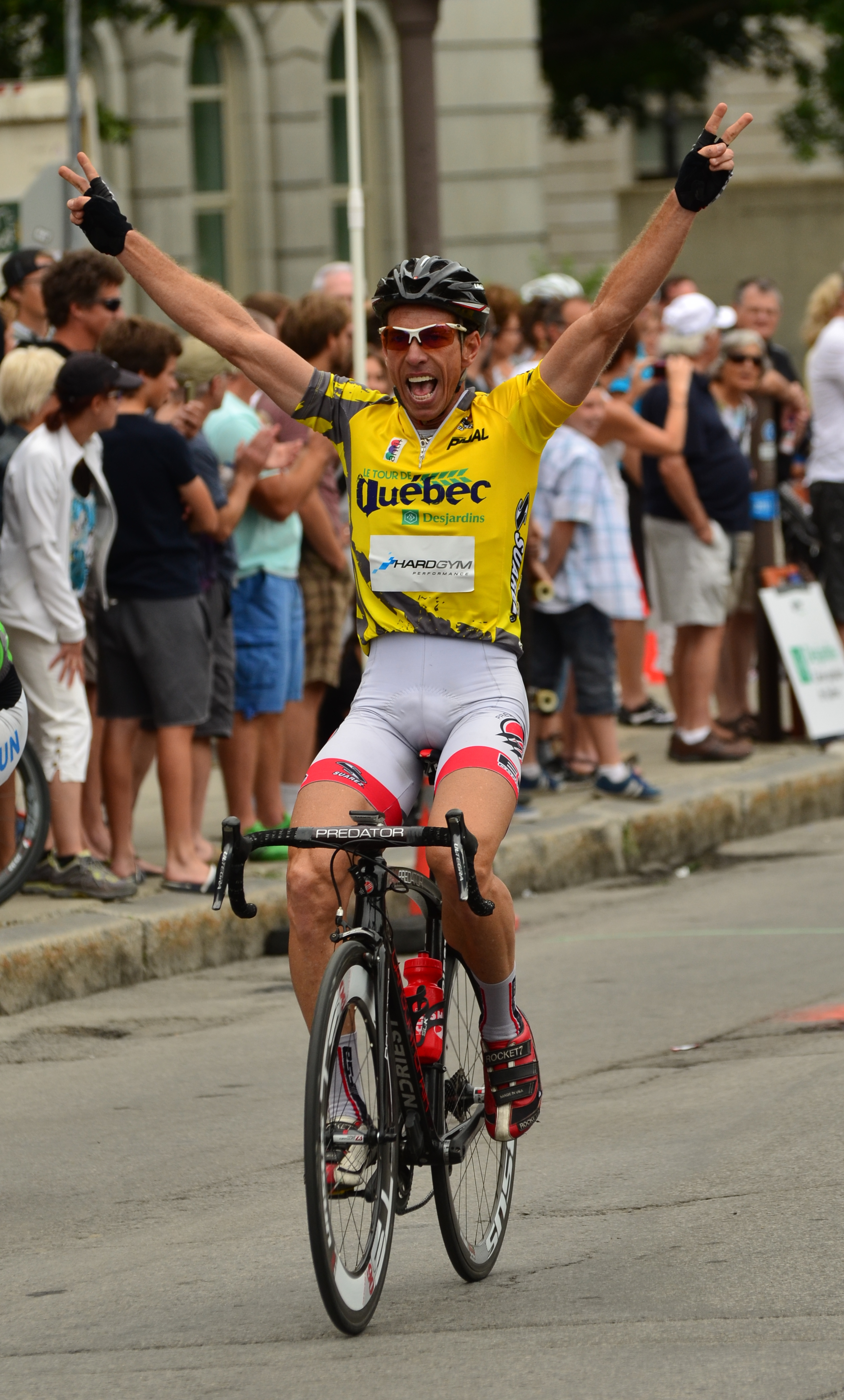 Emile Abraham wins the Tour de Québec.